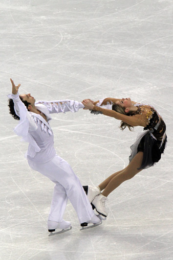 Tanith Belbin and Benjamin Agosto at the 2010 Winter Olympics.